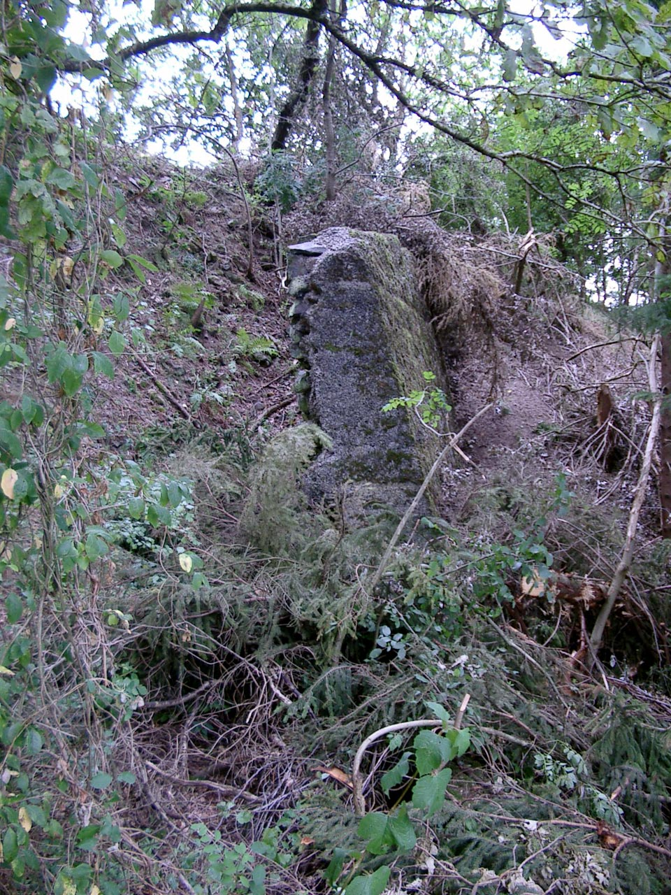 Remains of mining site in Remel basalt quarry